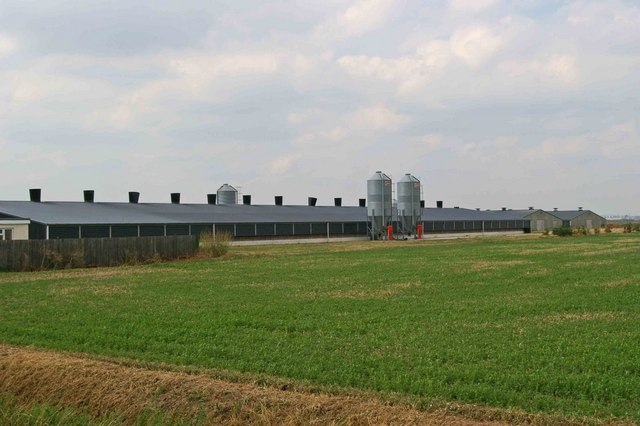 Chicken Farm. This massive industrial farm operated by the Faccenda Group is on West Wick Farm and stands on Marsh Road east of Burnham-on-Crouch. Even driving past you can tell Bio-Security is tight Bird Flu here would cost millions